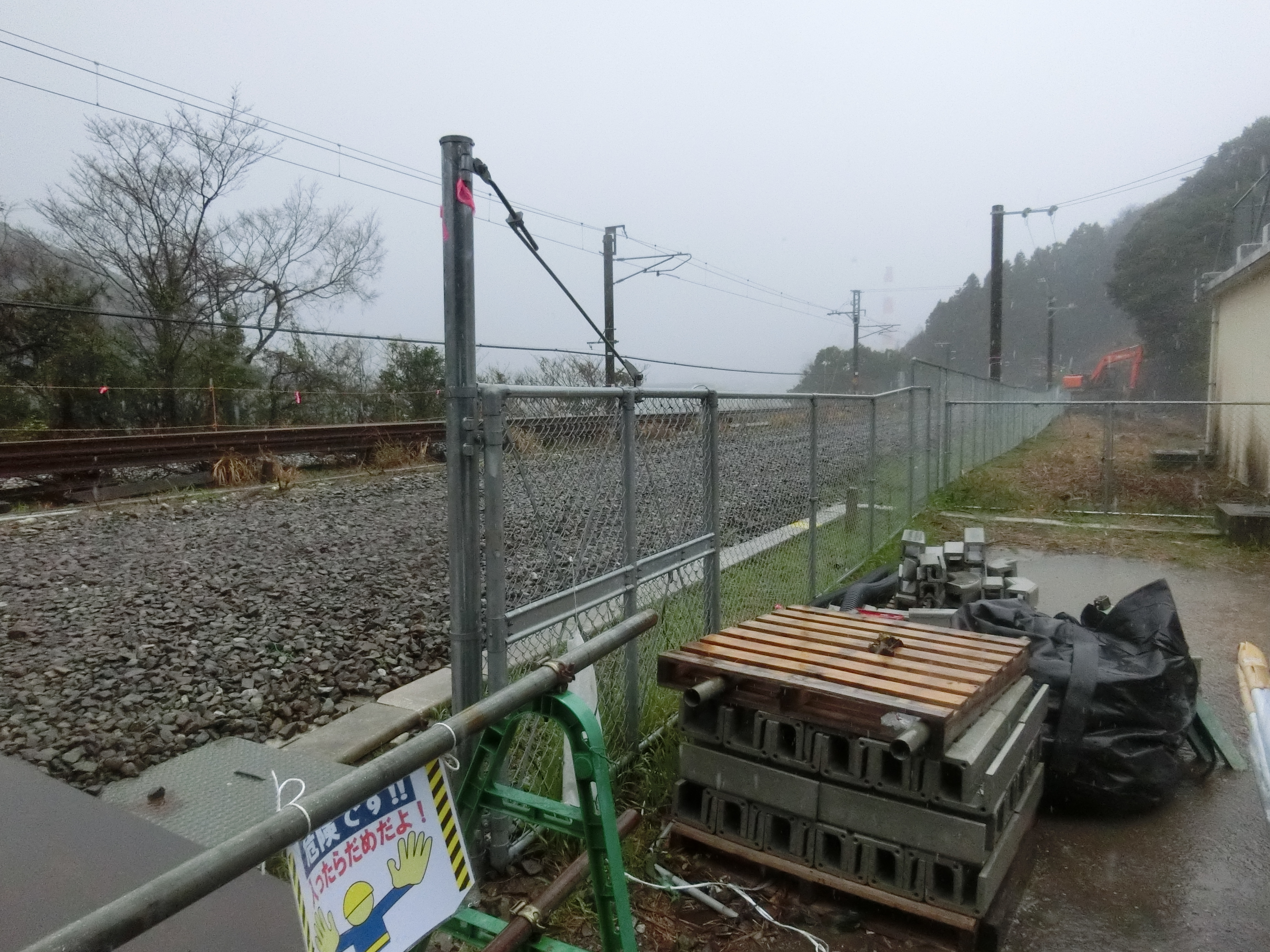 View of Tokuura Signal Base in Tsukumi City, Oita Prefecture, from Usuki Station side